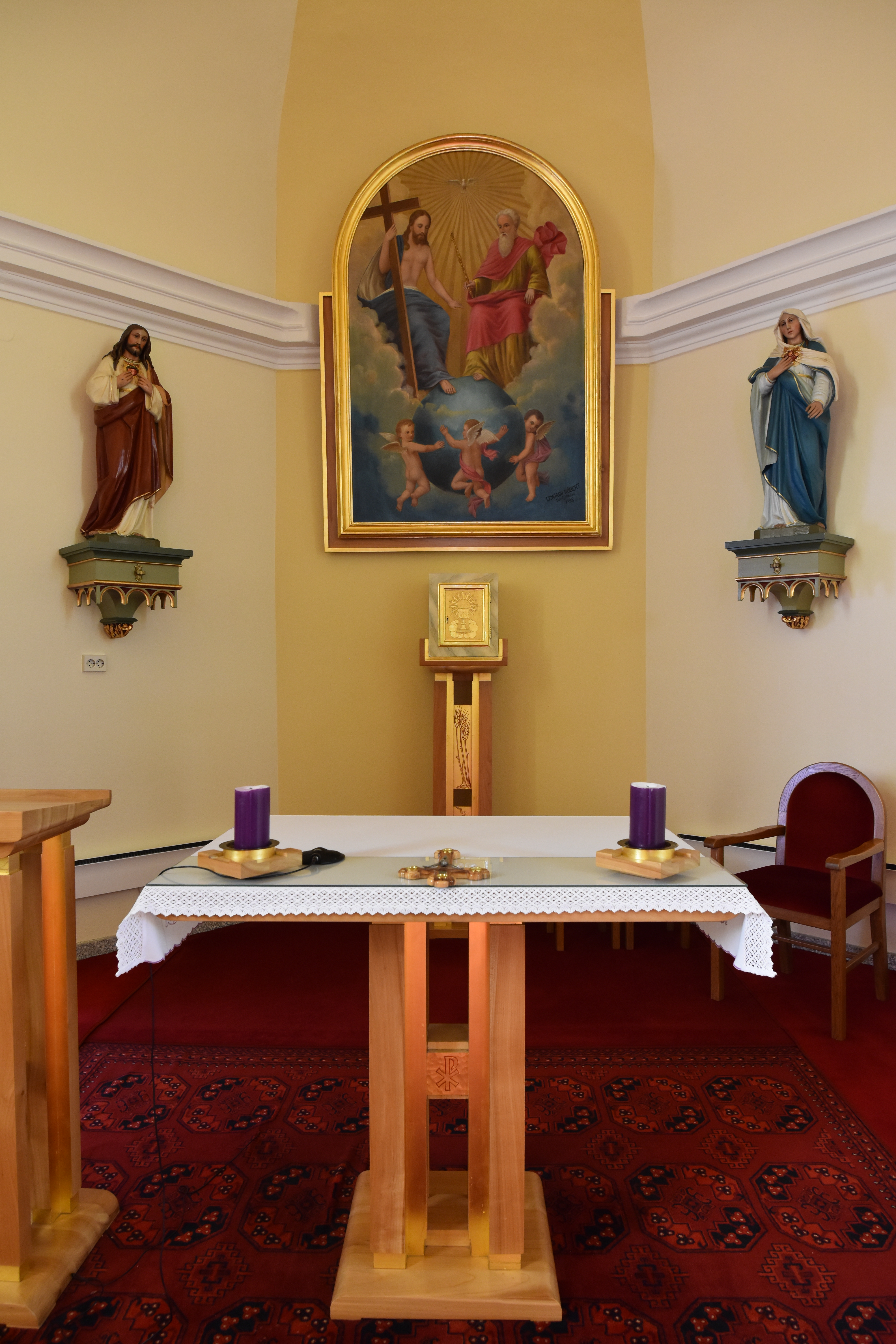 Church Hl. Dreifaltigkeit (Deutsch Bieling) - Interior